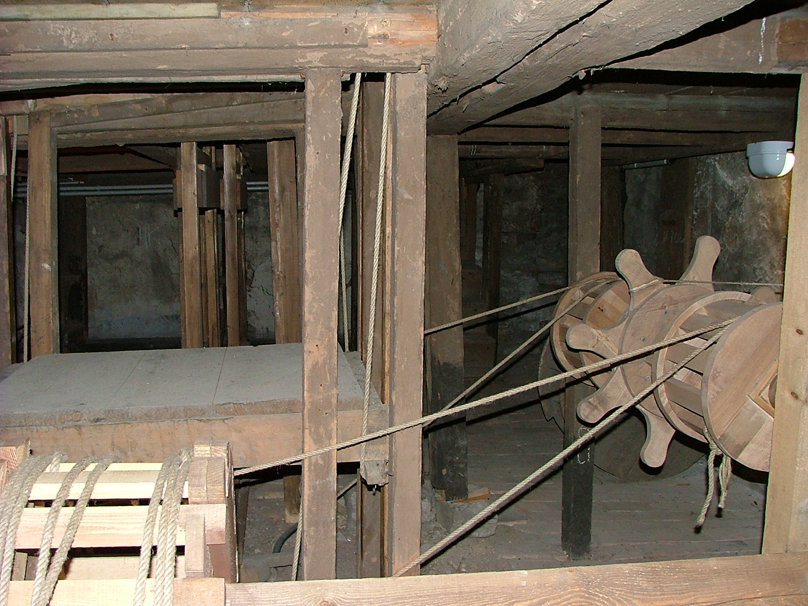 So-called "Hamlet-immersion"